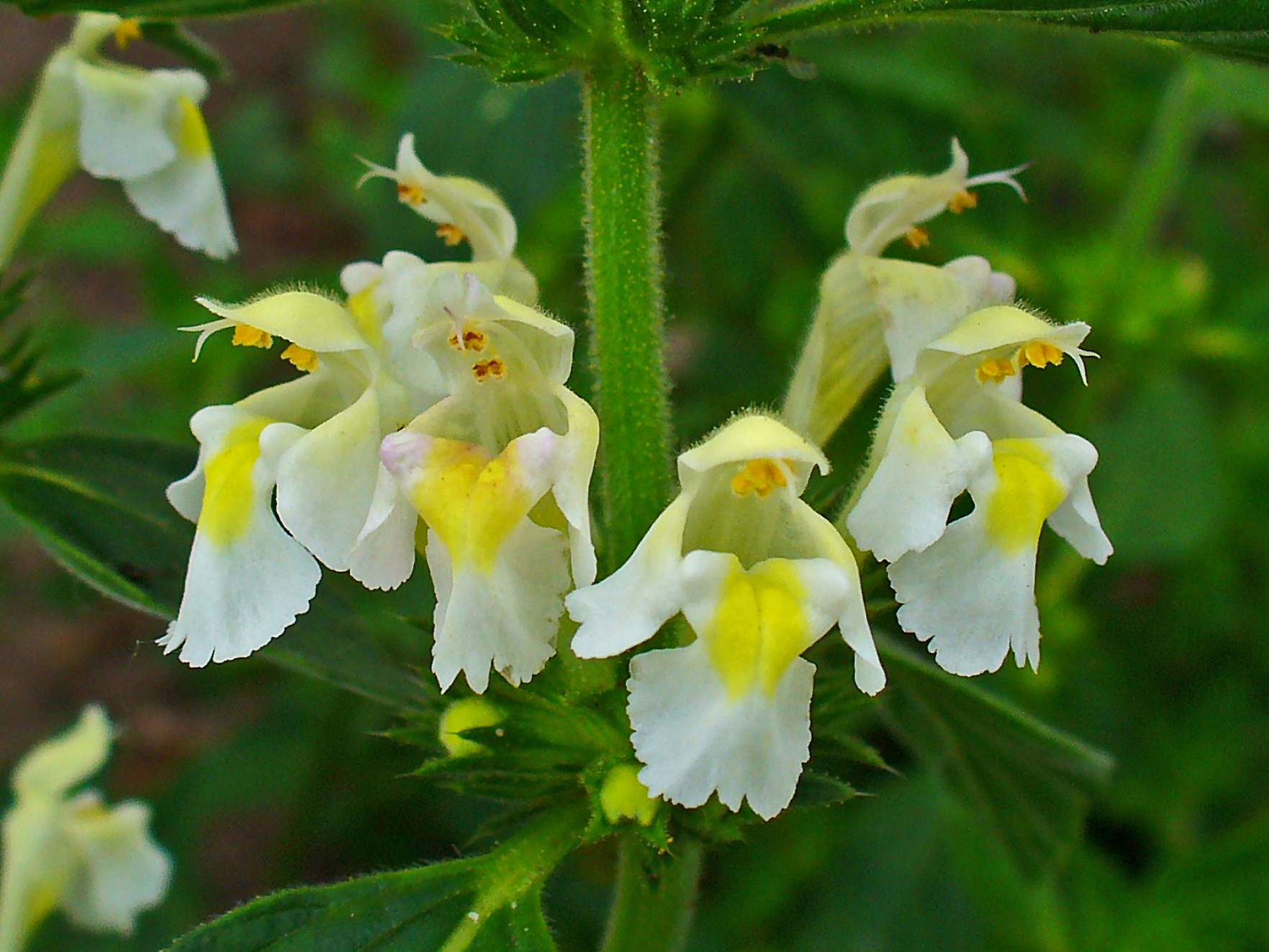 Galeopsis segetum, Lamiaceae, Downy Hempnettle, inflorescence. The blooming plant is used in homeopathy as remedy: Galeopsis (Galeo.)